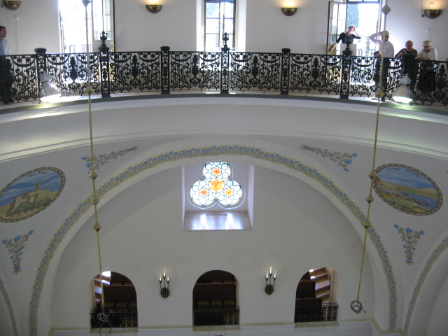 Stained glass in Hurva Synagogue in Jewish Quarter of old city of Jerusalem